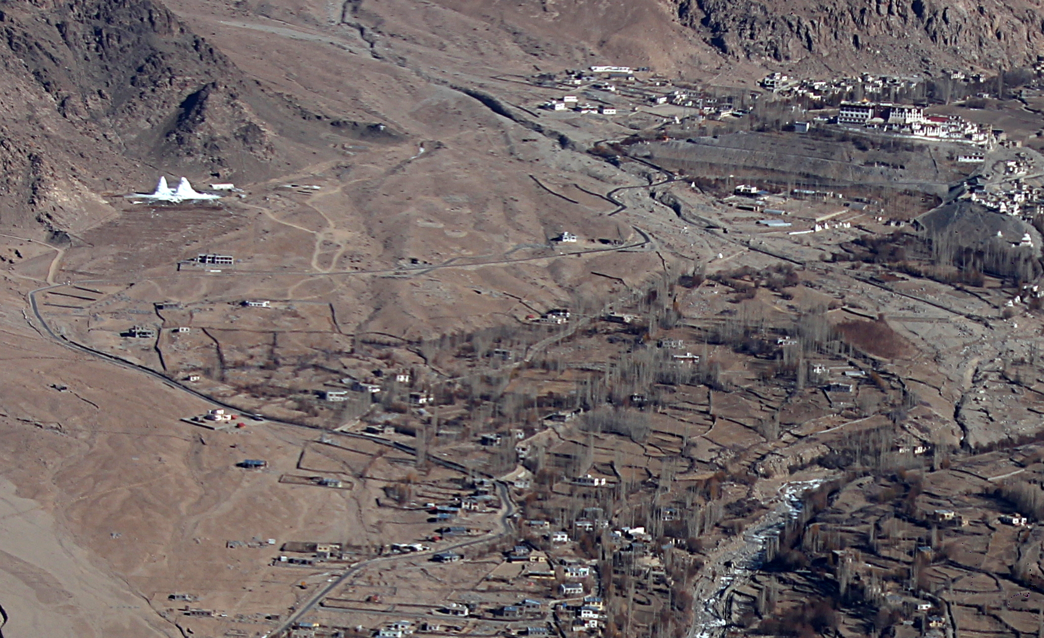 Aerial view of Ice stupa and Phyang Monastery from flight